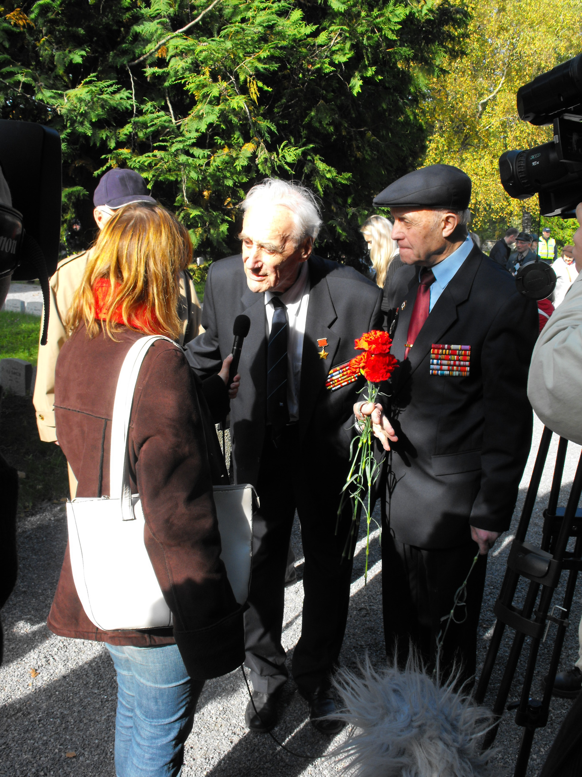 Arnold Meri on 22 September 2008 at the relocated Bronze Soldier